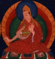 Gorumpa Kunga Lekpa (b.1477 - d.1544), Jonang master